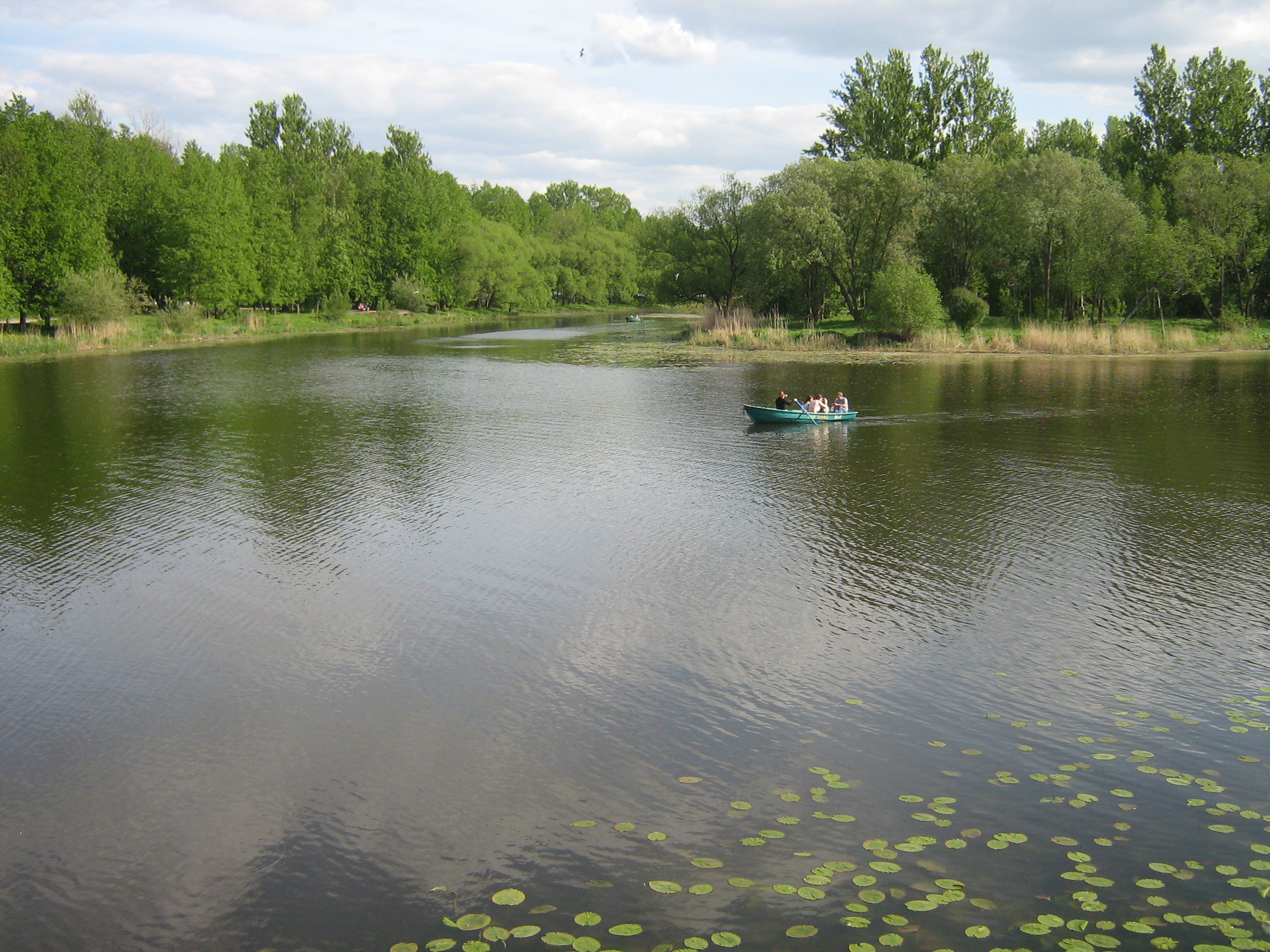 Kolpino (Russia)